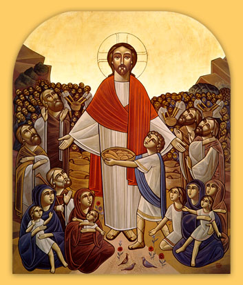 Christ feeding the multitude (Coptic icon)